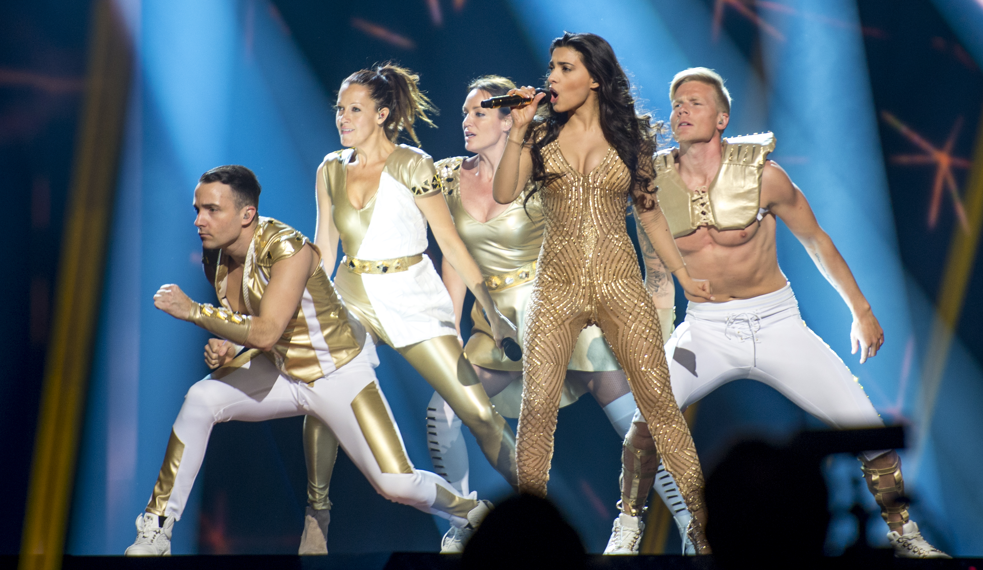 Samra representing Azerbaijan with the song "Miracle" during a rehearsal before the first semi final of the Eurovision Song Contest 2016 in Stockholm. (Help translate this text)